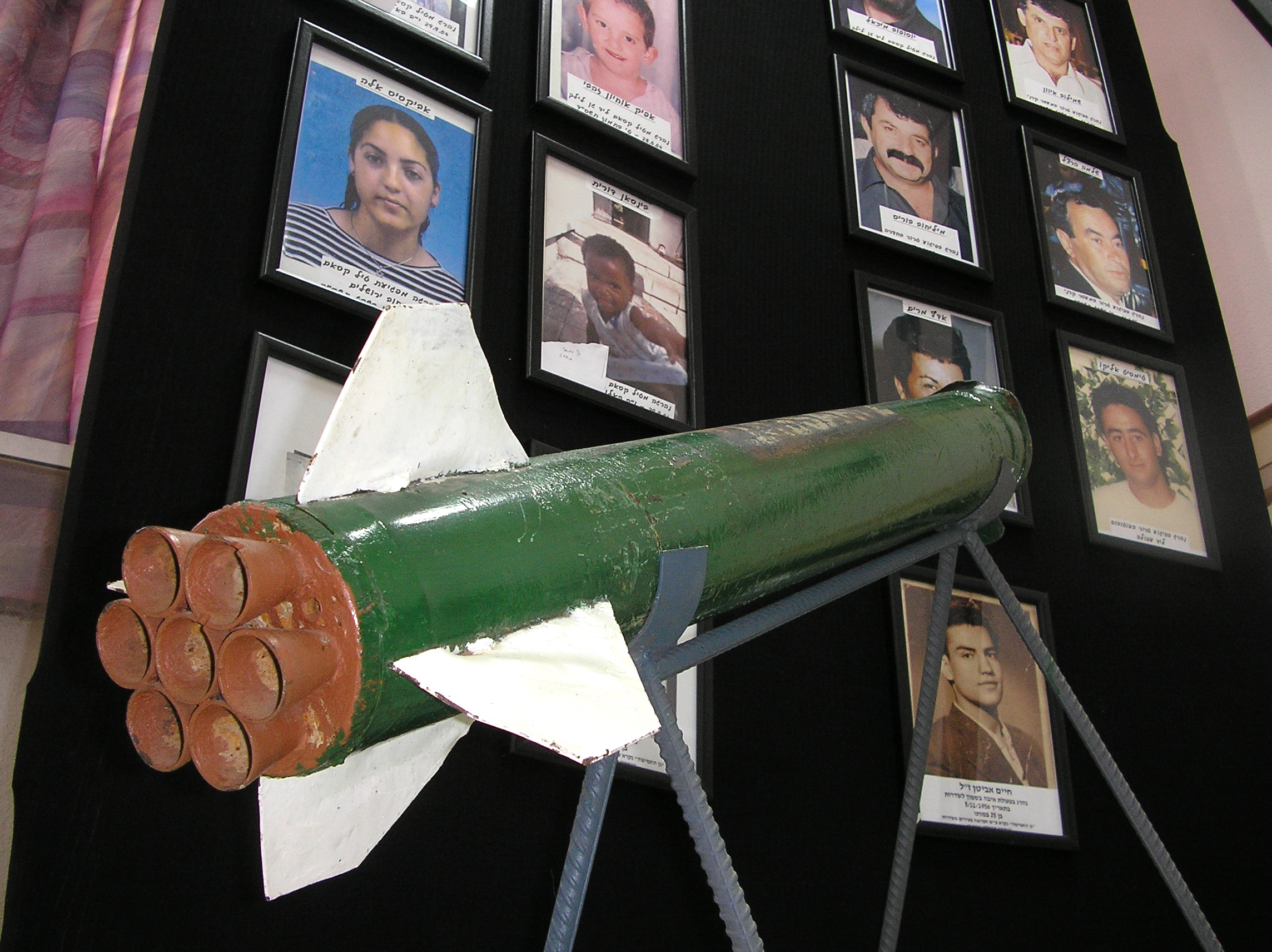 Sderot - A Qassam rocket displayed in Sderot town hall against a background of pictures of residents killed in rocket attacks. The African child is 2-year-old Dorit (Masarat) Benisian Both she and her 4-year-old cousin were were killed by a Kassam rocket fired from Gaza Strip.